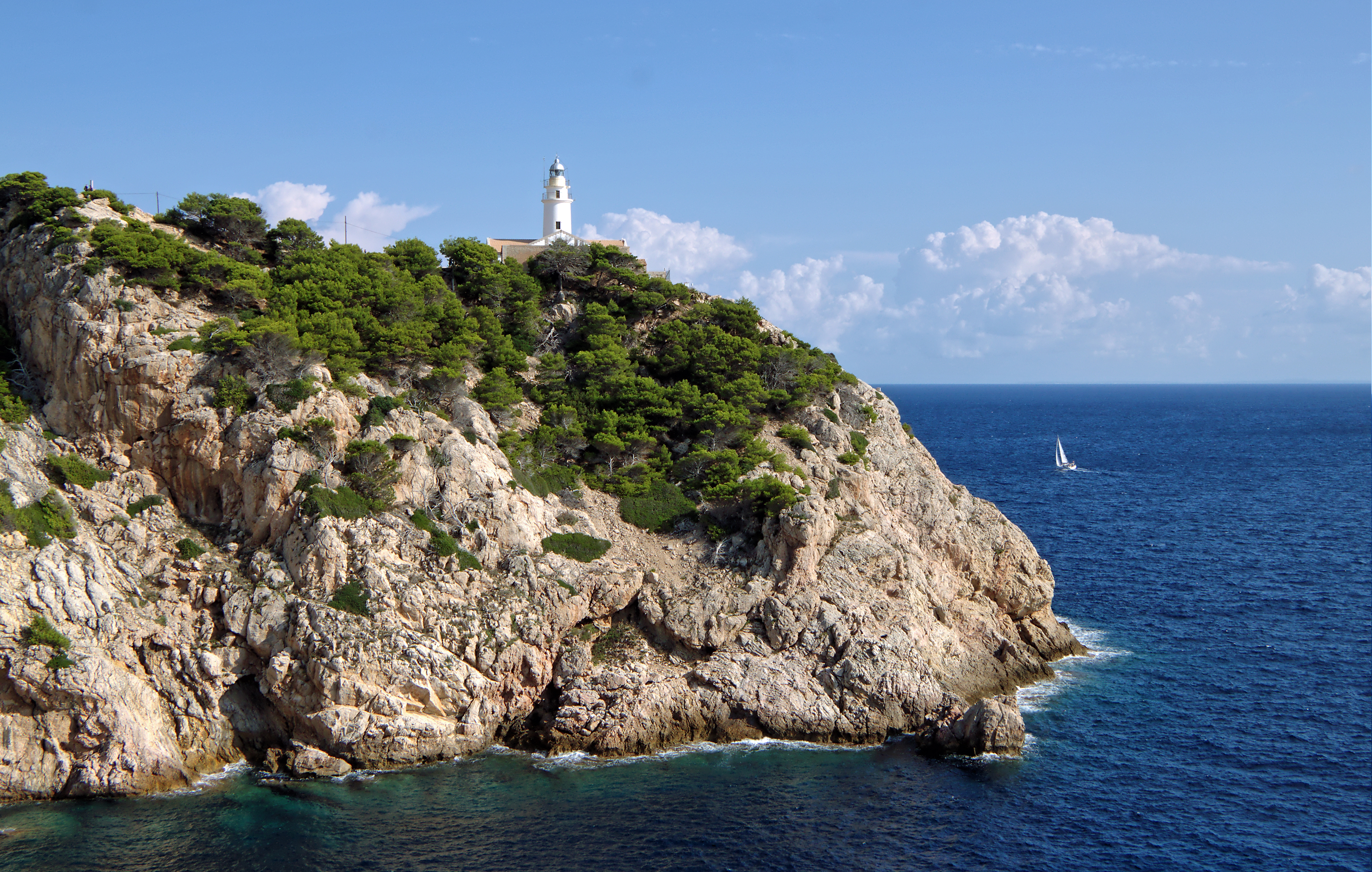 Punta de Capdepera with lighthouse, Majorca, view from south